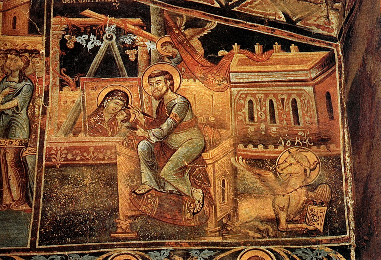 Saint Athanasius Church in Dourmani, Luke the Evangelist Fresco, 1736